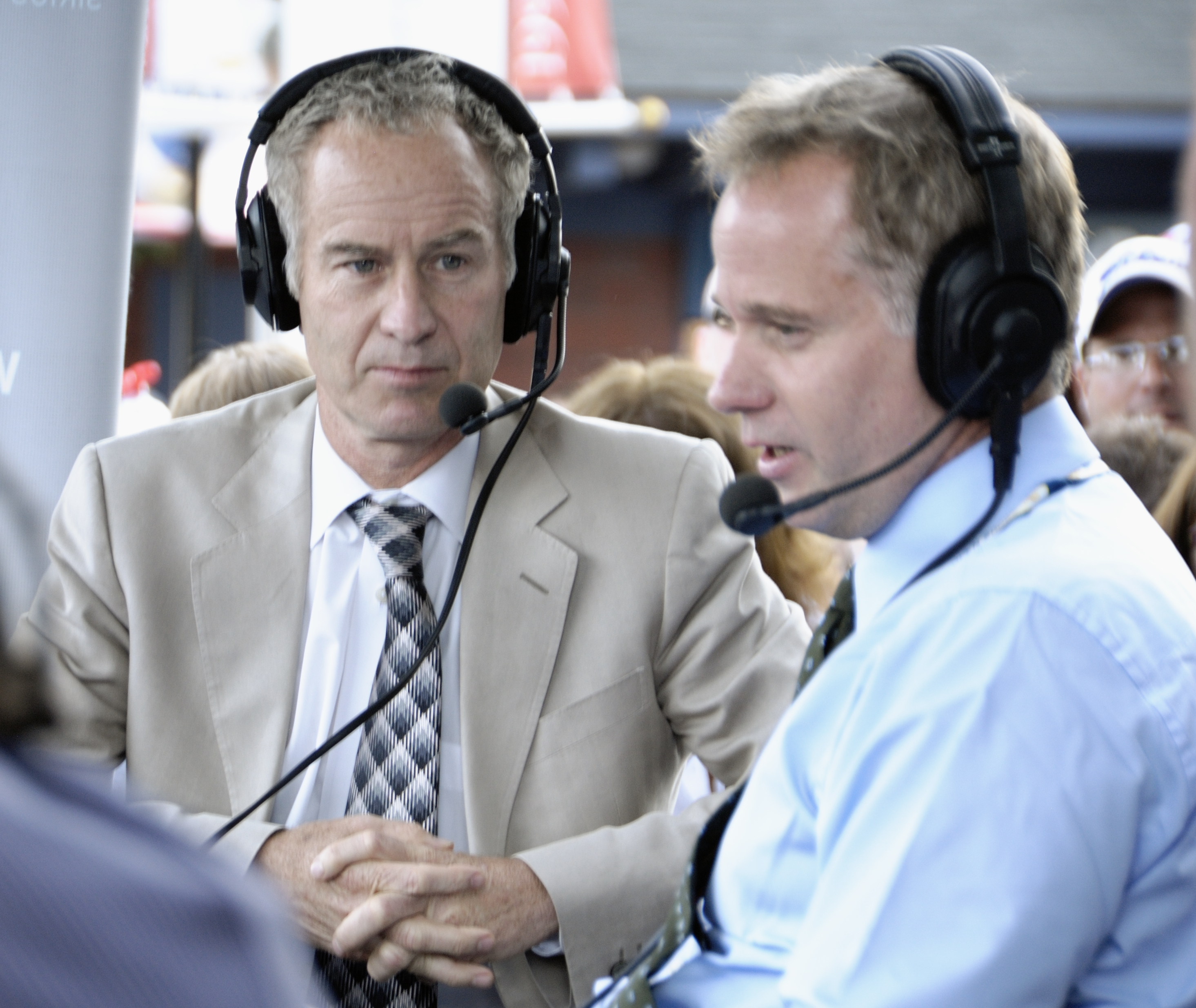 John and Patrick McEnroe at the 2009 US Open